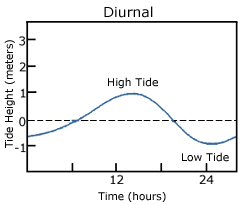 Diurnal tide